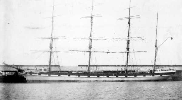 Creator unknown. Black and white photograph of four masted barque Loch Carron at wharf taken between 1885 and 1915. Original held by State Library of Victoria. Image number: H99.220/3819. Part of the Malcolm Brodie shipping collection.